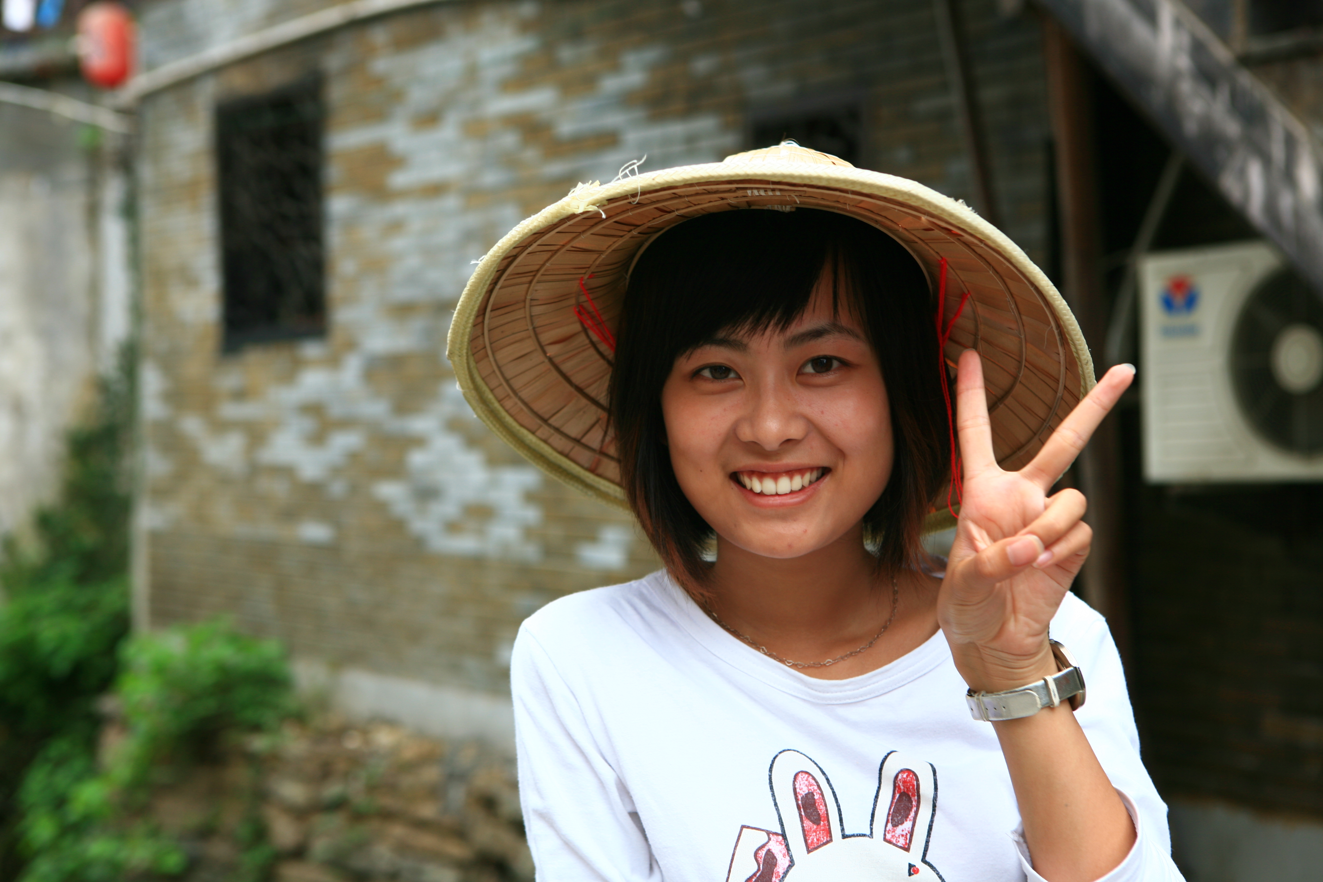 Girl in Muyuan County, Jiangxi, China